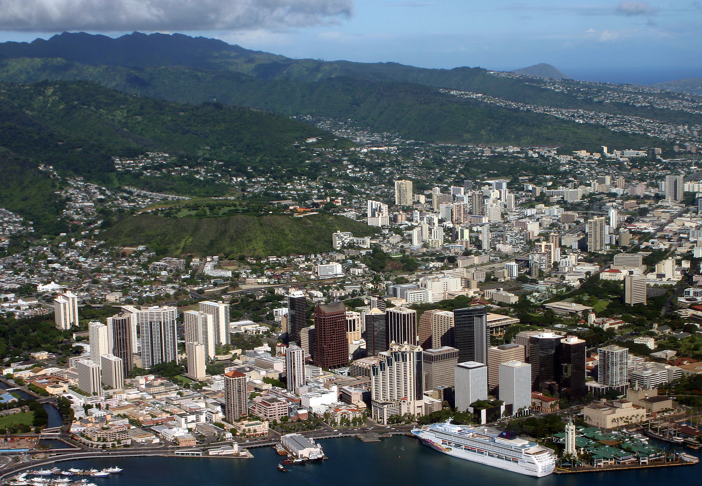 Oahu from the air.